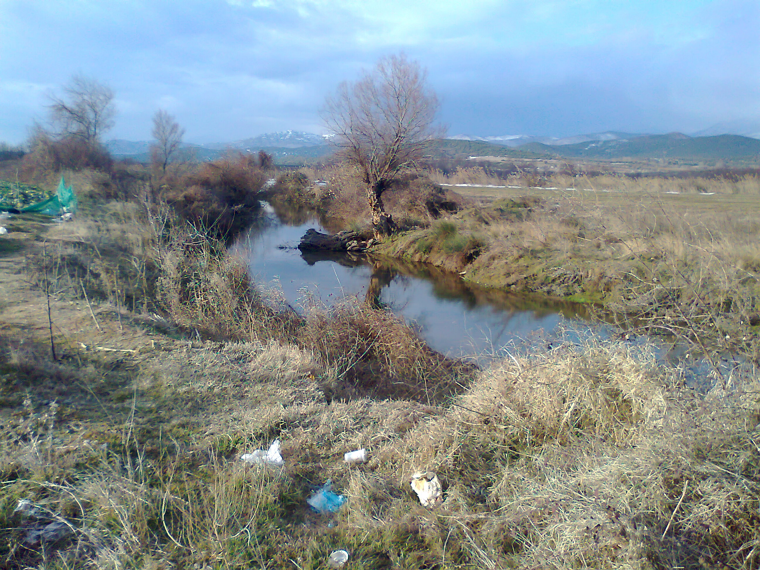 Anska River near Marvinci